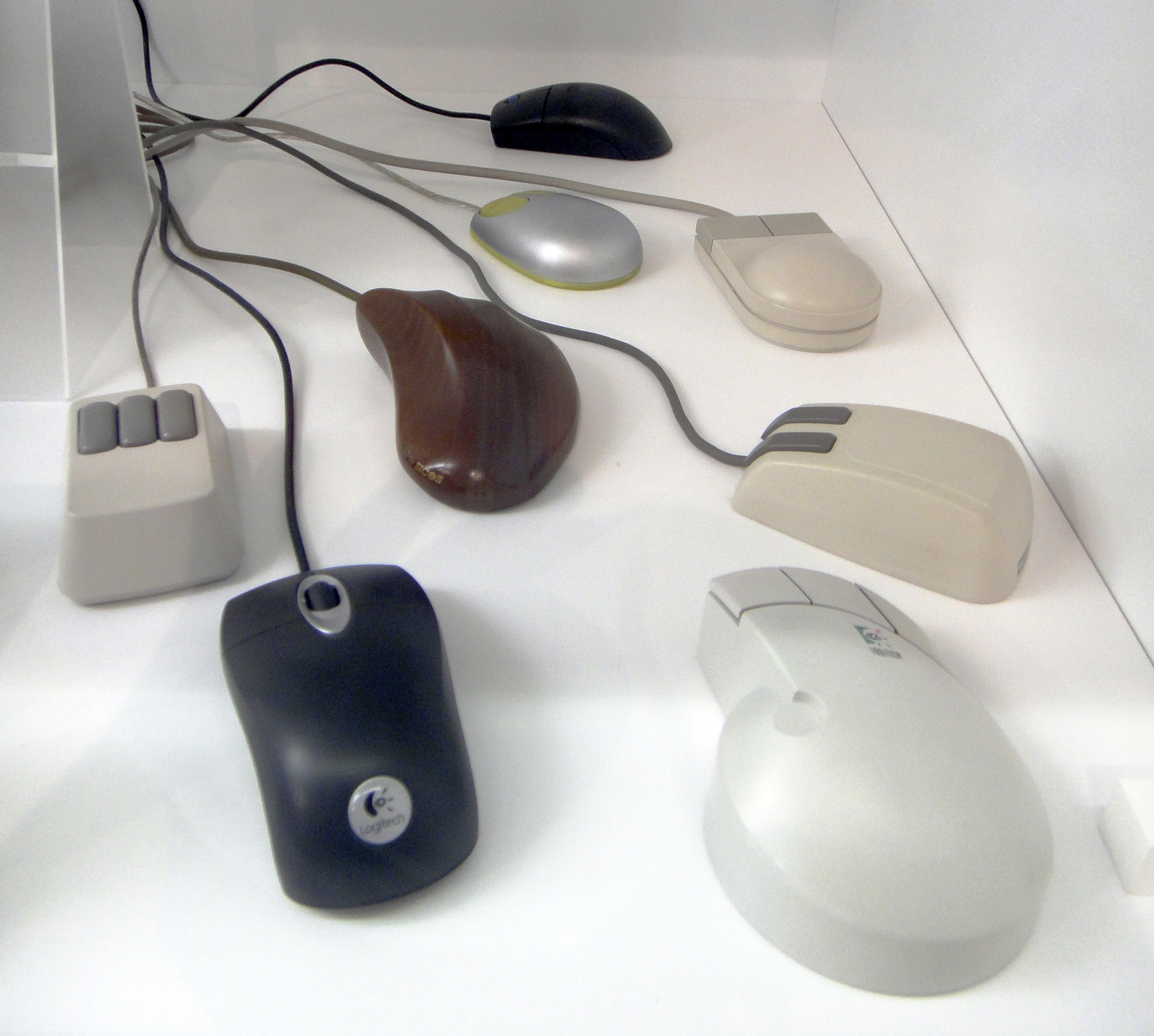 A variety of computer mice built from 1985 to 2007.